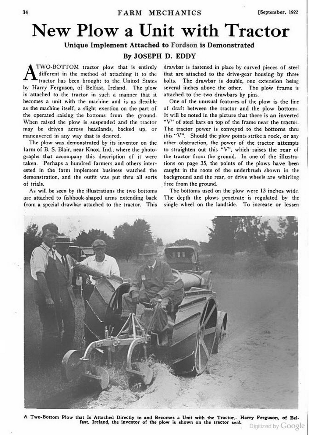 A magazine article showing and describing Harry Ferguson's tractor hitch development status as of 1922. It is a fully mechanical version with a depth wheel (small wheel that sets the plow depth) and is truly a three-point hitch, although it is not of the hydraulic type. The hydraulic type would be patented in 1926. The hitch is shown mounted on a Fordson tractor. In 1938, Ferguson would finally strike an agreement with Henry Ford to put Ferguson hitches on Ford tractors at the factory—something he had first attempted in 1920 and 1921 at Cork and Dearborn.